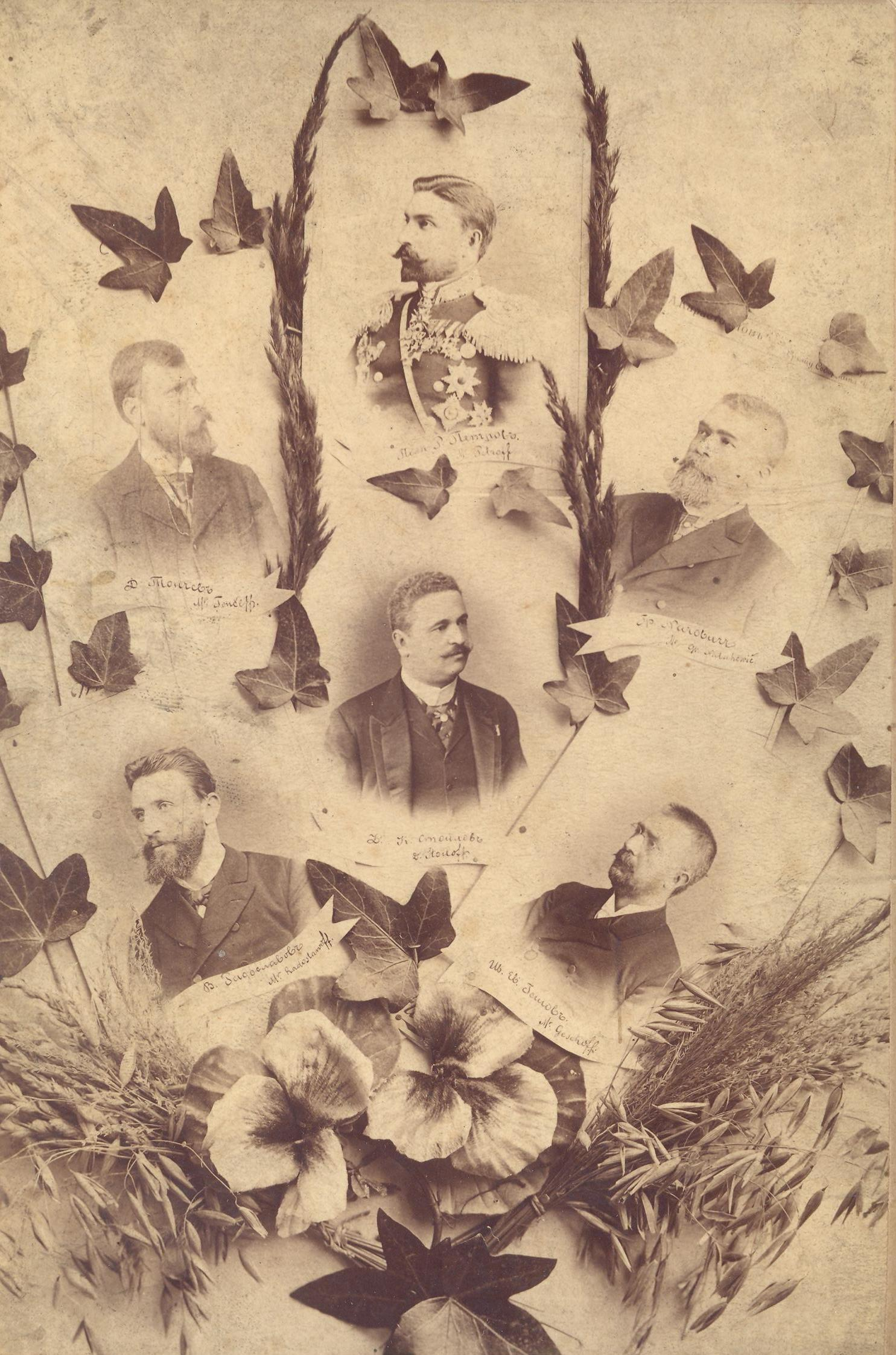 Ministers in the cabinet of Konstantin Stoilov, 1894.